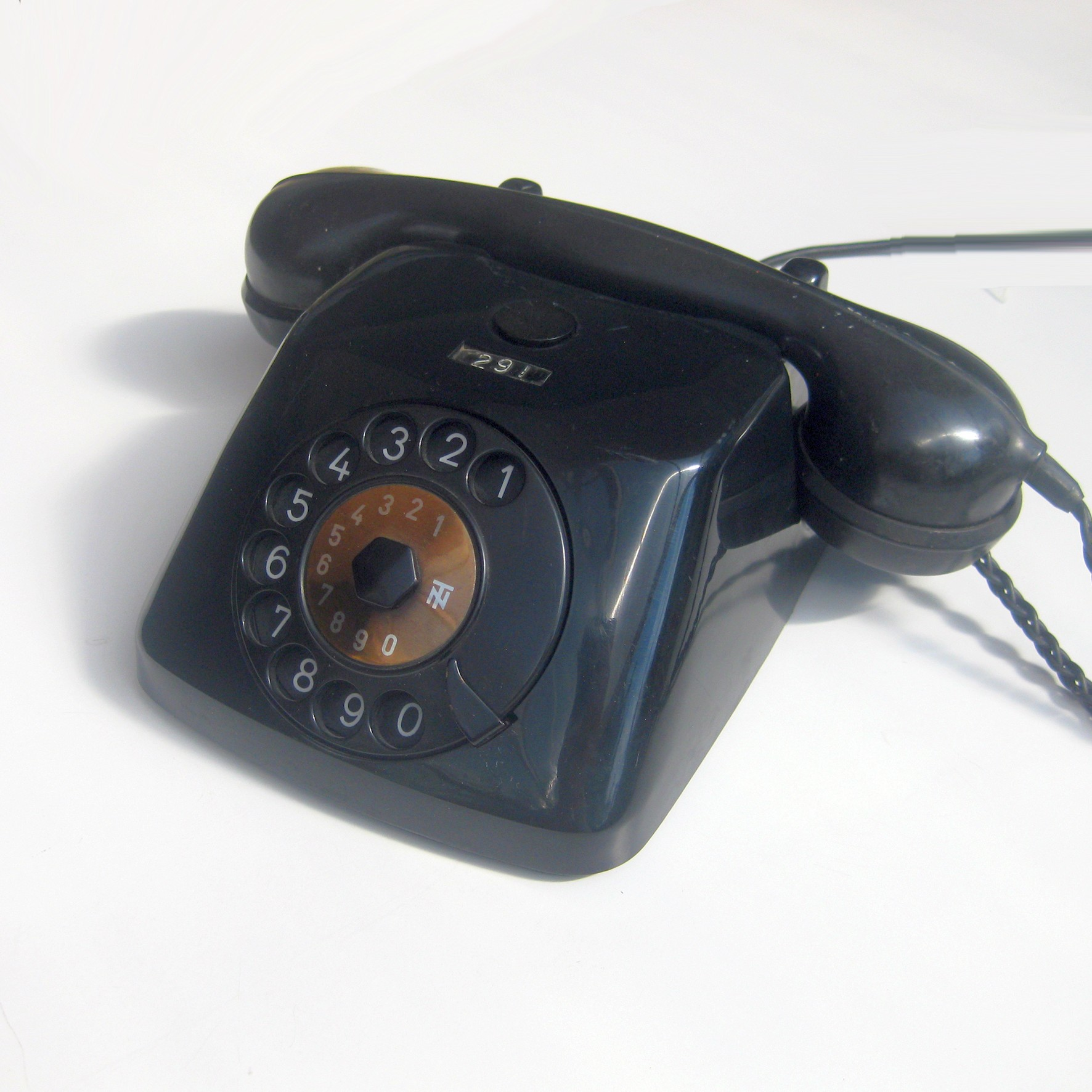 Telephone desigend by Walter Maria Kersting for Telenorma